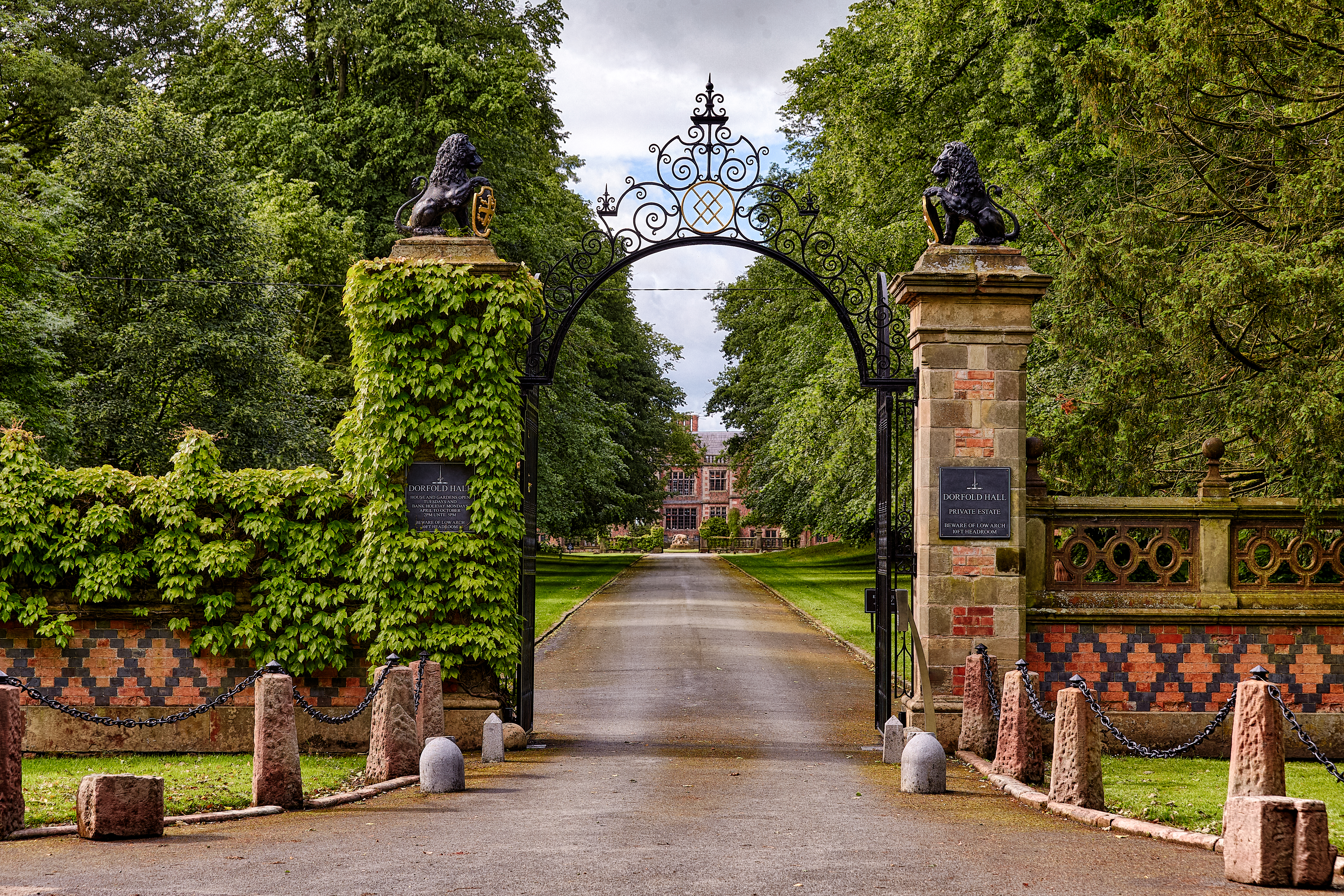 The main gates that lead to Dorfold Hall